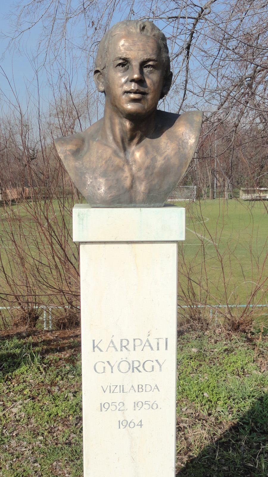 György Kárpáti, hungarian water polo player. 1952, 1956, 1964 Summer Olympics - Gold Medal Winner